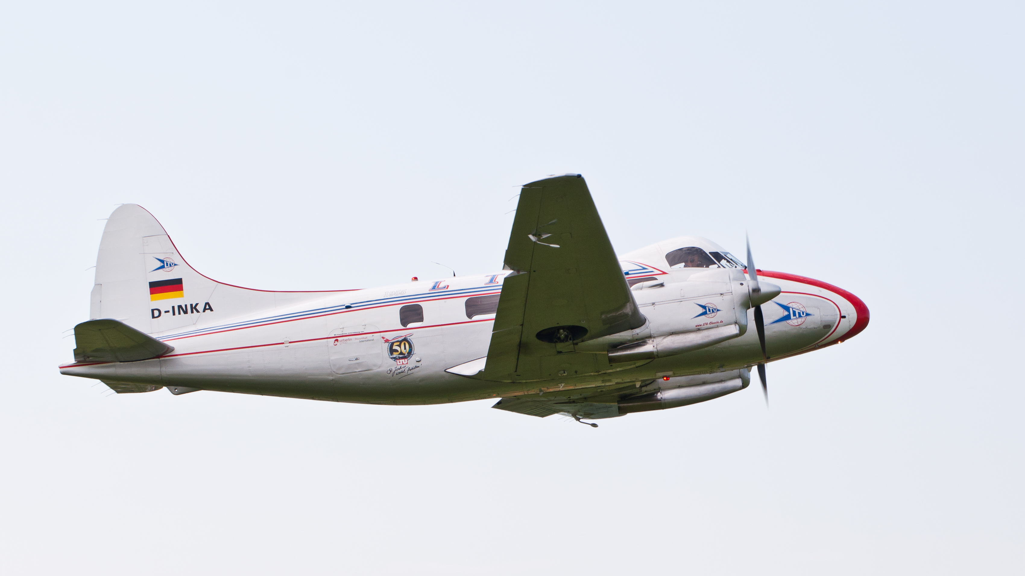 LTU - Lufttransport-Unternehmen De Havilland DH-104 Dove 8 (reg. D-INKA, cn 04266, built in 1949). Engine: 2 × deHavilland GQ 70.